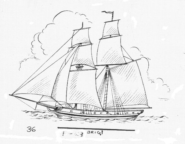 line art drawing